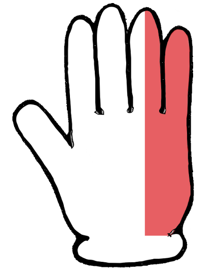 Cartoon depiction of classic ulnar sensory distribution, including mid-4th and 5th fingers.